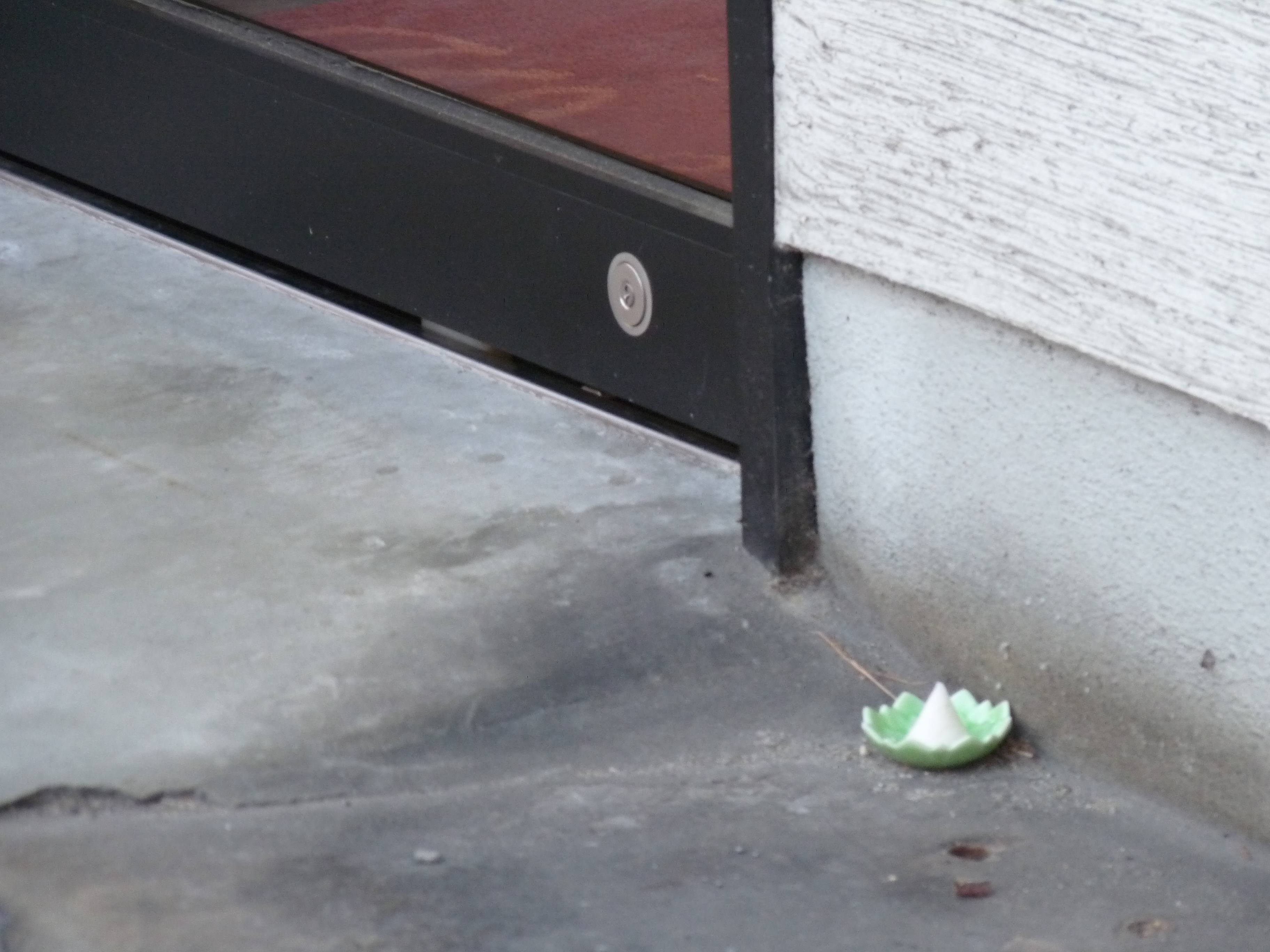 Morijio at the door